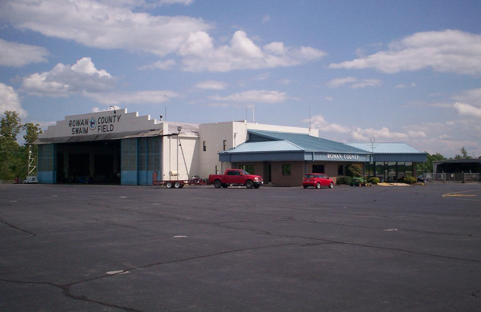 Terminal and maintenance hangar at Rowan County Airport (KRUQ)